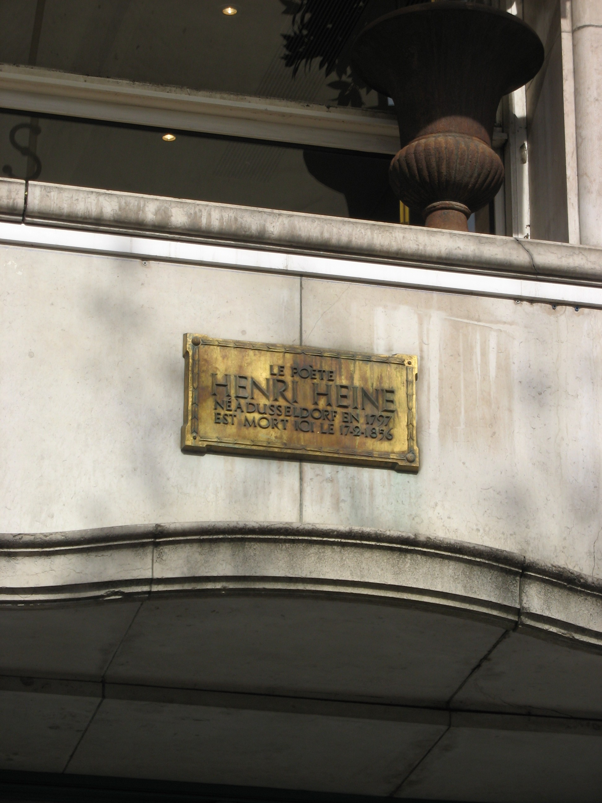 Henri Heine est mort ici. Paris, Avenue Matignon Nr. 3, Champs-Élysées